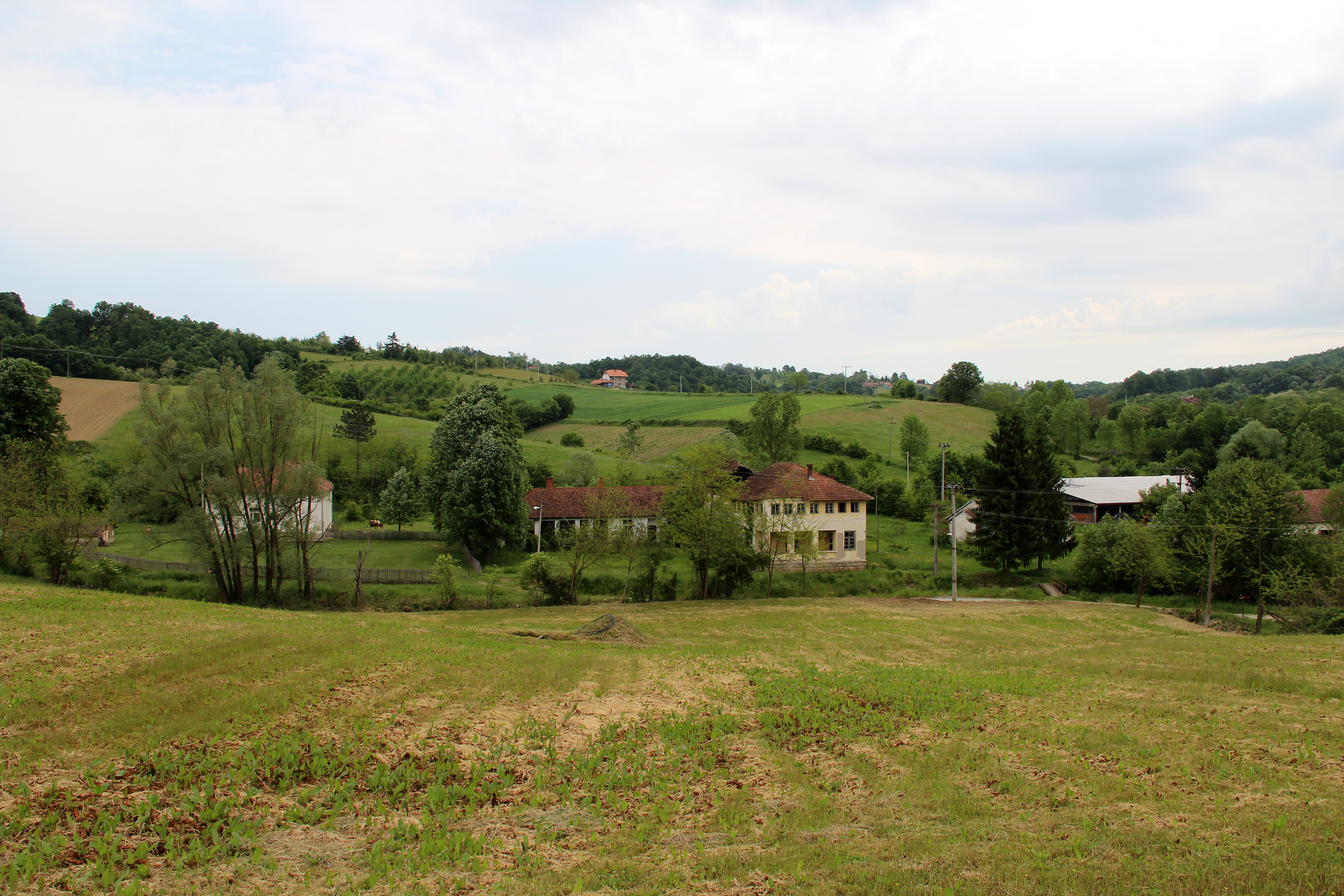 Gornja Bukovica village - Municipality of Valjevo - Western Serbia - panorama 11